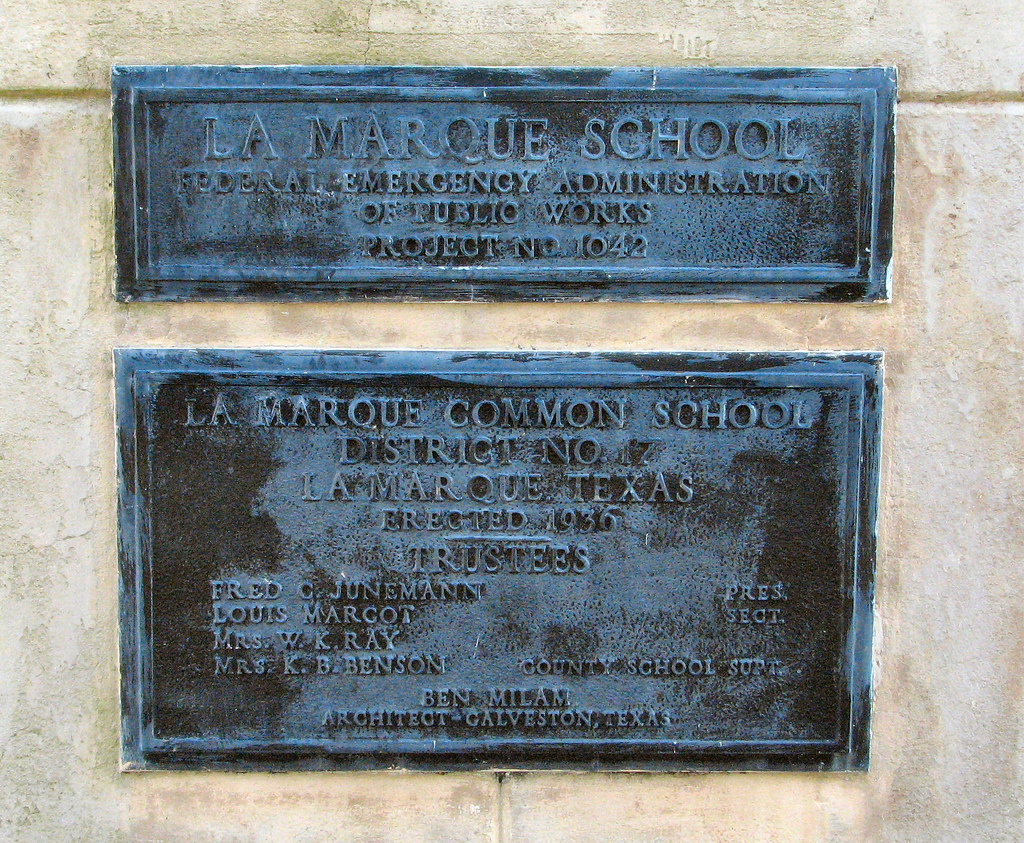 1936 La Marque School dedication plaque. La Marque, Texas, USA. Links and sourcing information regarding the school is given on the talk page. Photograph is from December 2007.